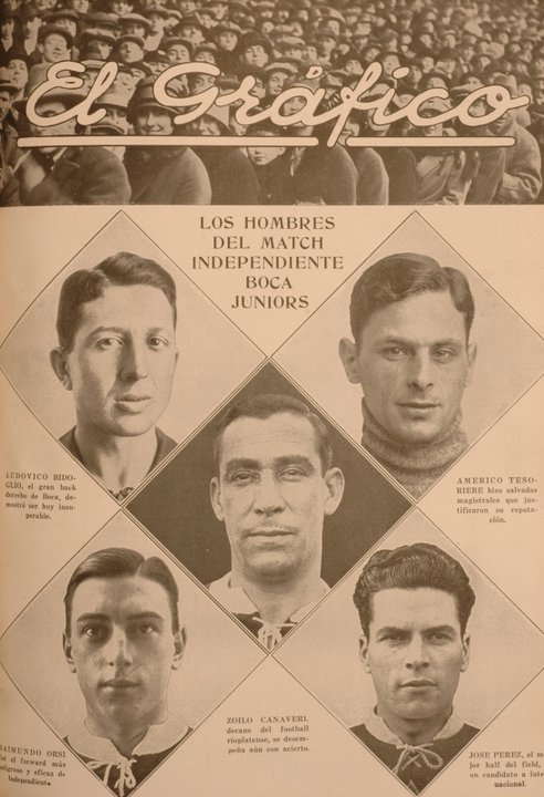 Cover of El Gráfico featuring players of Boca Juniors and Independiente. From left to right (up): Bidoglio, Tesorieri; (middle): Canavieri; (down): Orsi, José Pérez.